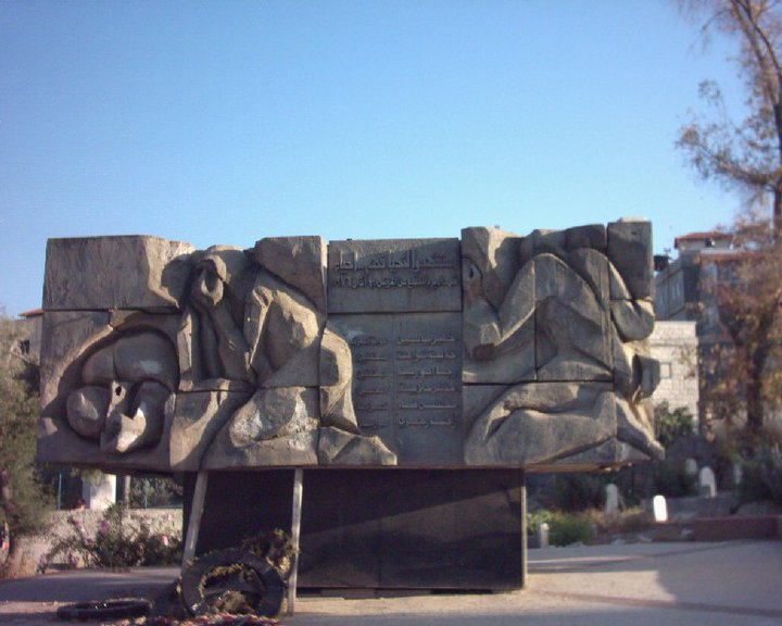 Architecture of Israel